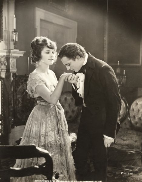 John Barrymore, as Dr. Henry Jekyll, kisses the hand of Martha Mansfield, as Millicent Carew, in a production still from the American film Dr. Jekyll and Mr. Hyde (Famous Players-Lasky 1920).